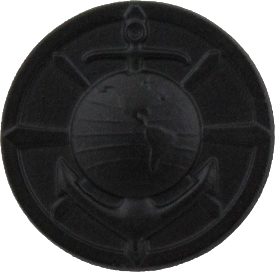 COLLAR DEVICE: RELIGIOUS PROGRAM SPECIALIST - BLACK METAL